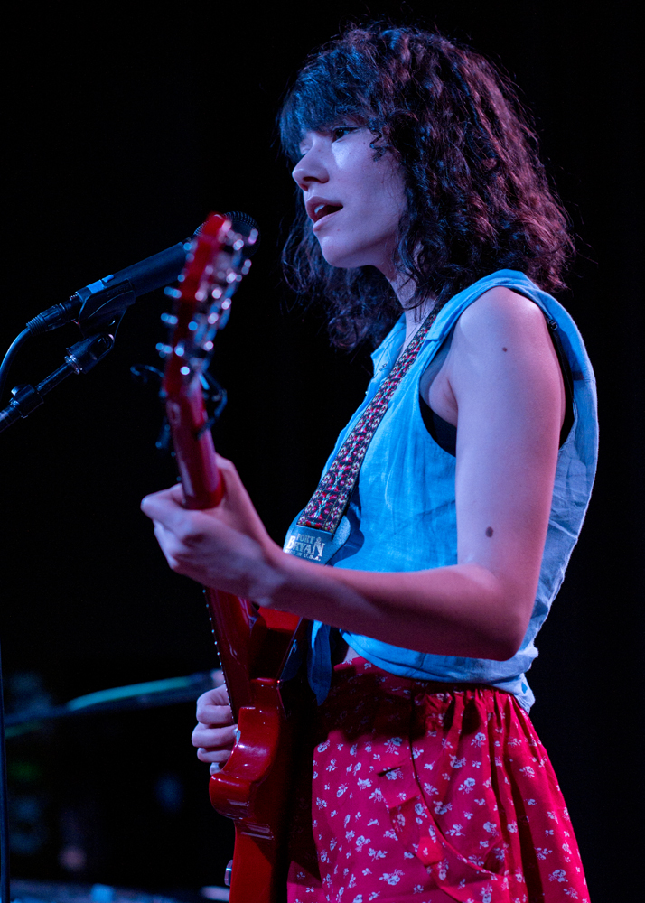 Mree performs on May 14, 2014 at the Vera Project in Seattle, Washington